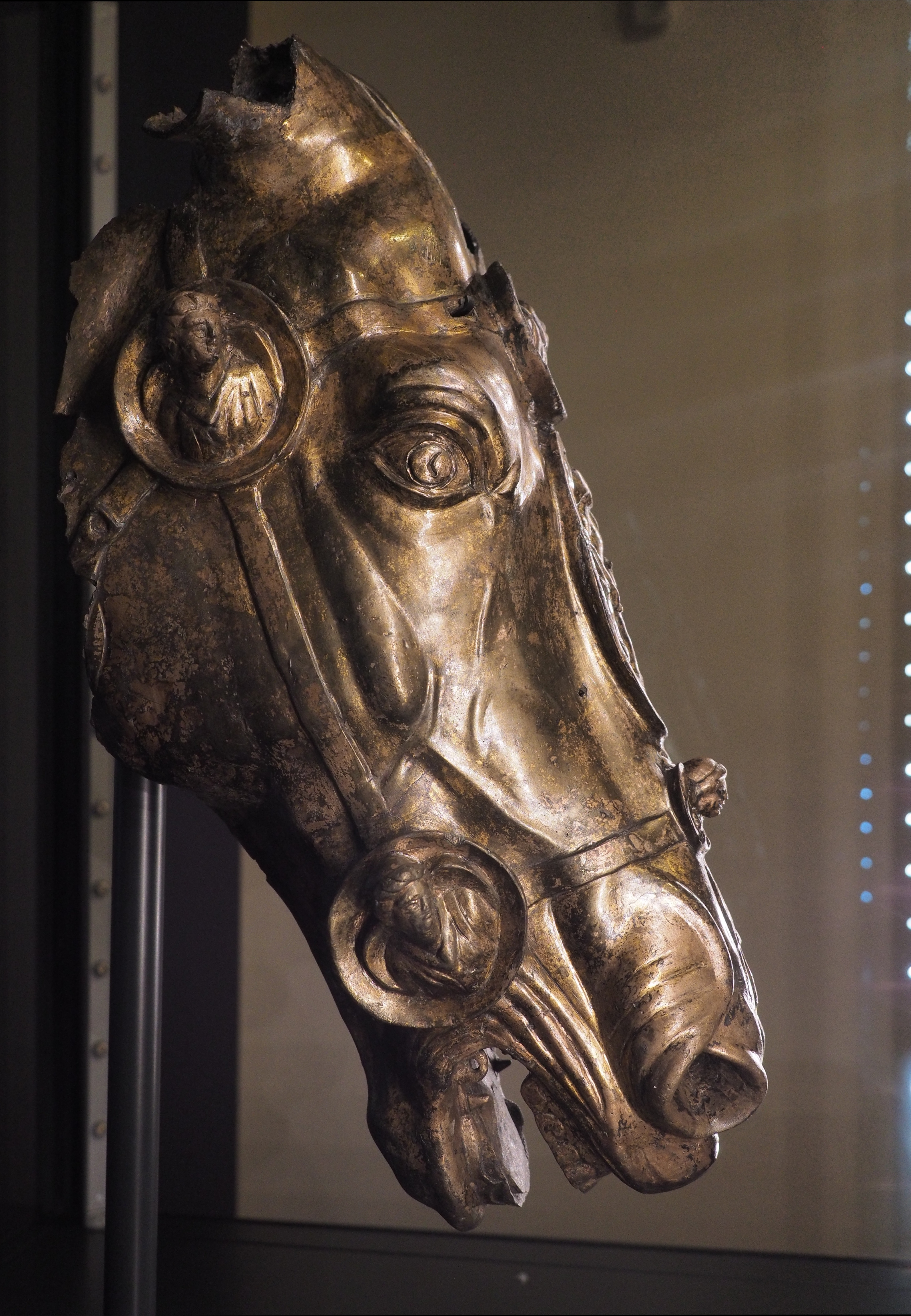 Roman Horsehead of Waldgirmes displayed in the Saalburg museum, Bad Homburg, Germany